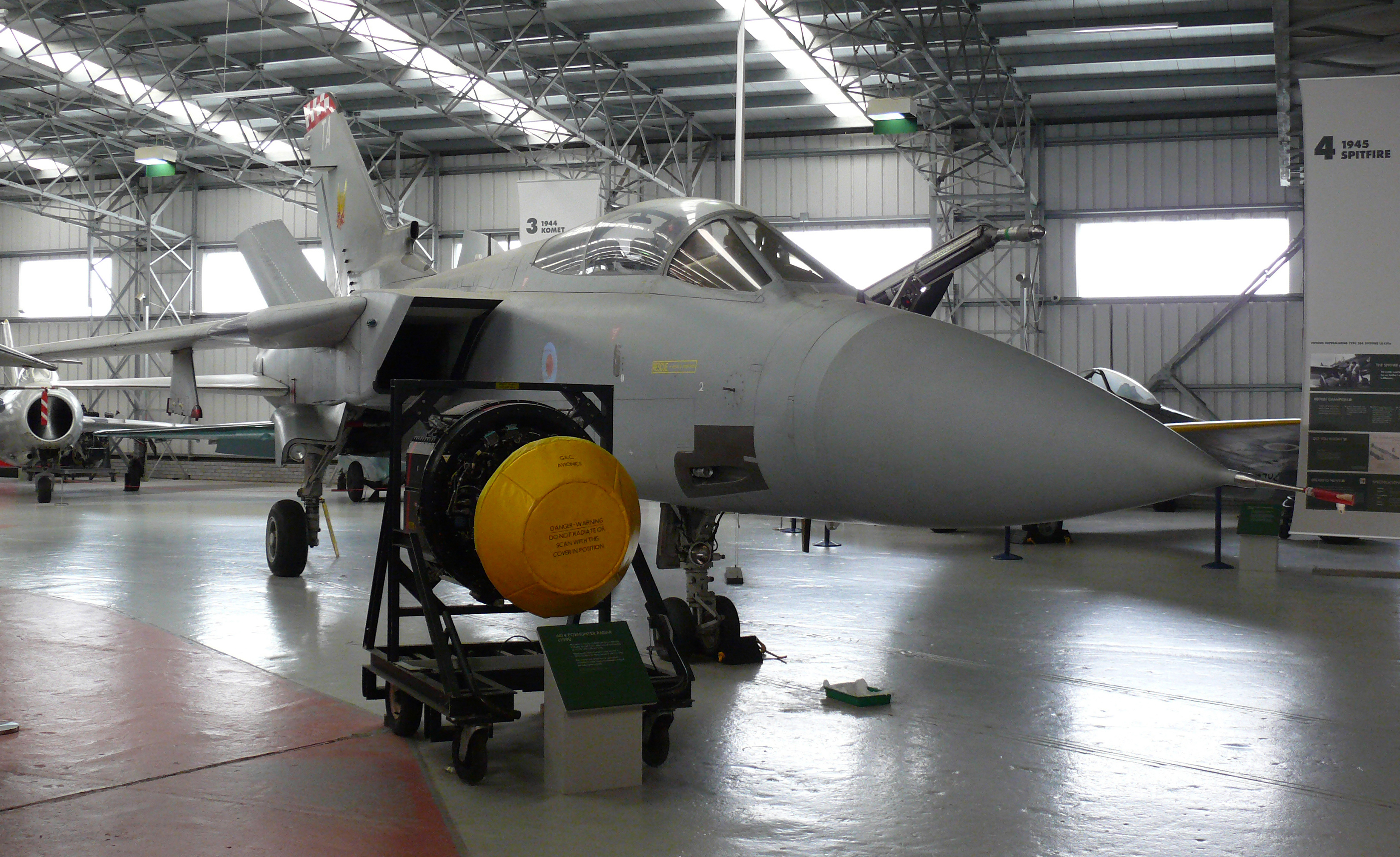 Panavia Tornado F3 a twin-engine, variable-sweep wing combat aircraft, in the National Museum of Flight in East Fortune, East Lothian, Scotland. Museum Number EF.2005.75